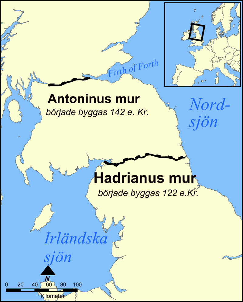 This map shows the location of Hadrian's Wall and the Antonine Wall in Scotland and Northern England.